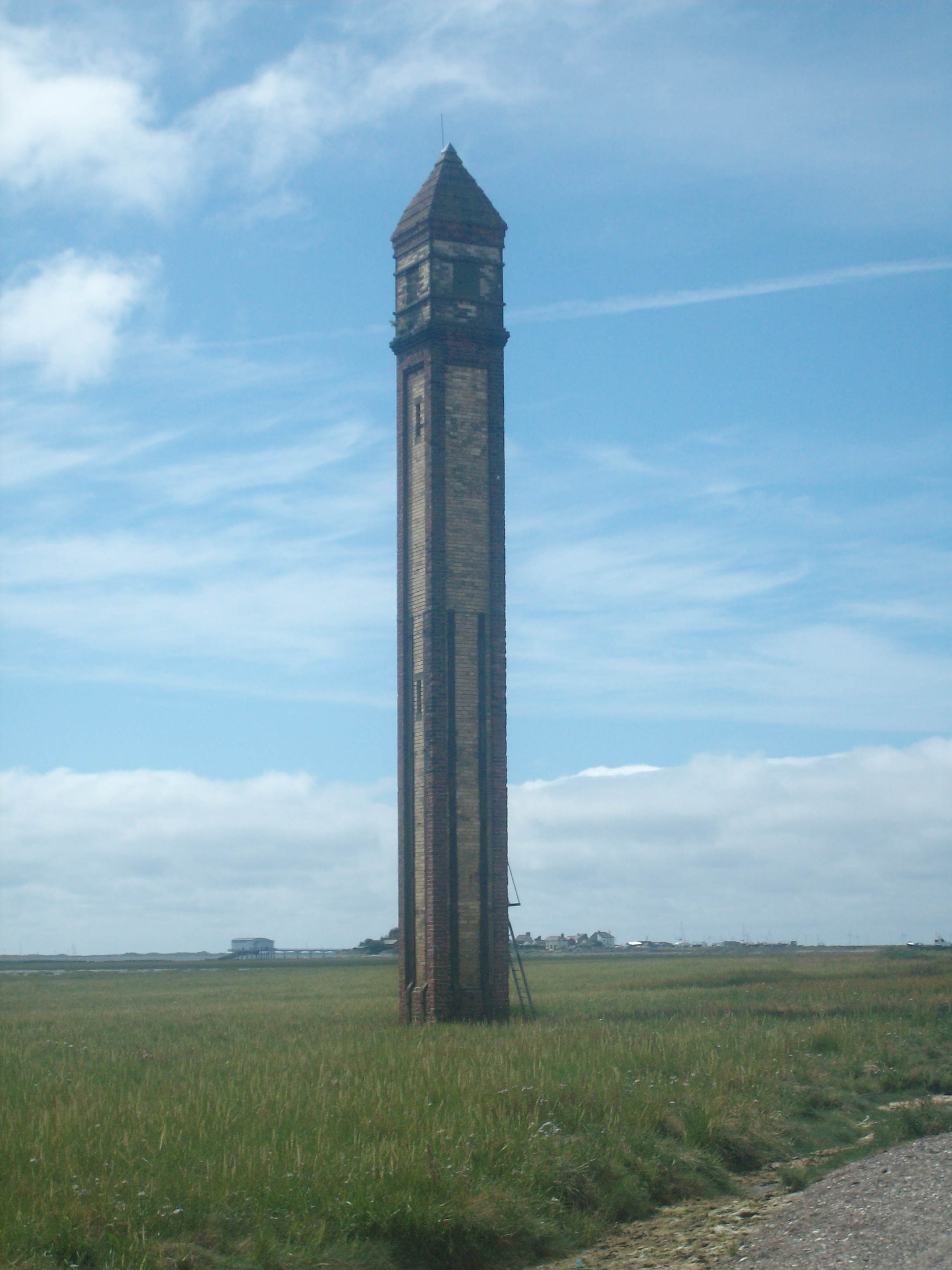 The Rampside lighthouse, also known as The Needle, was built between 1805-1870. Its destruction was proposed in recent times, although Rampside residents worked to have it listed as a historic structure, and today it is the sole of survivor of a set of thirteen lighthouses that were built in the period along the coast from Rampside to Barrow-in-Furness.